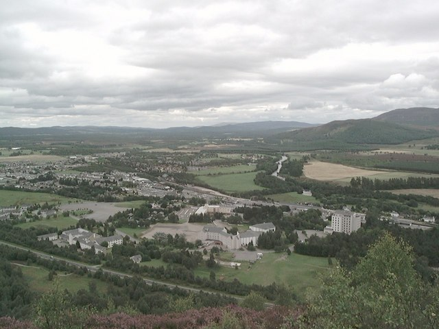 Aviemore from Craigellachie